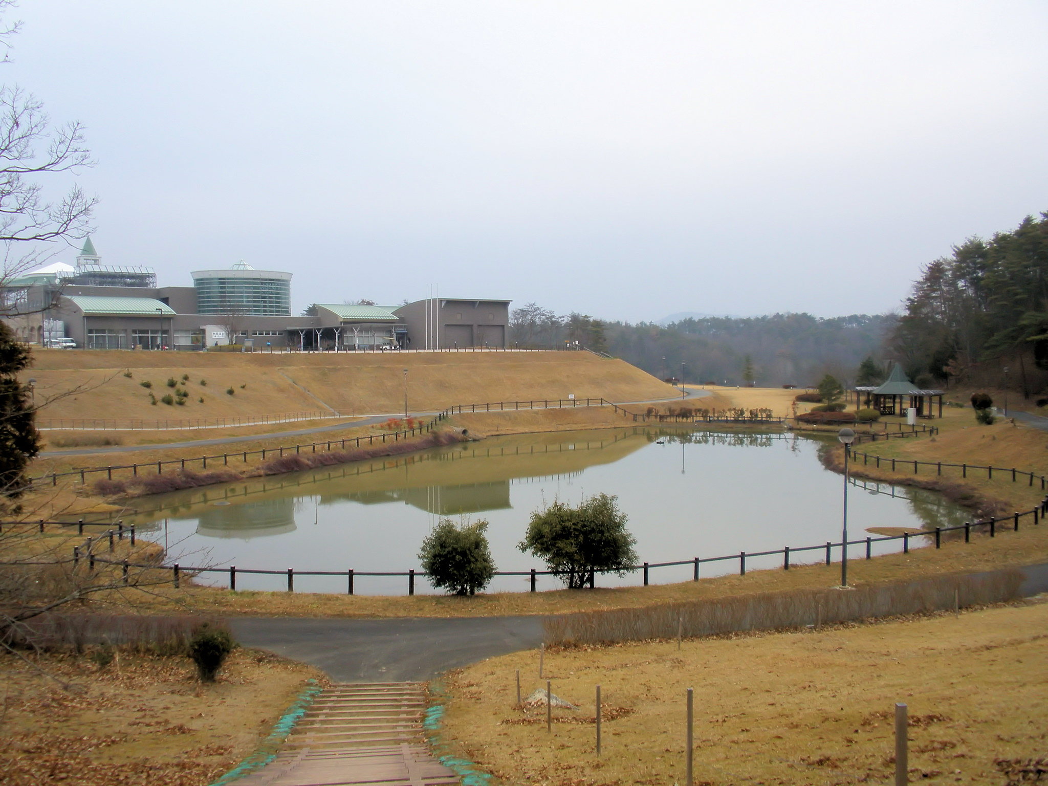 Highland Park, Takahashi, Okayama.